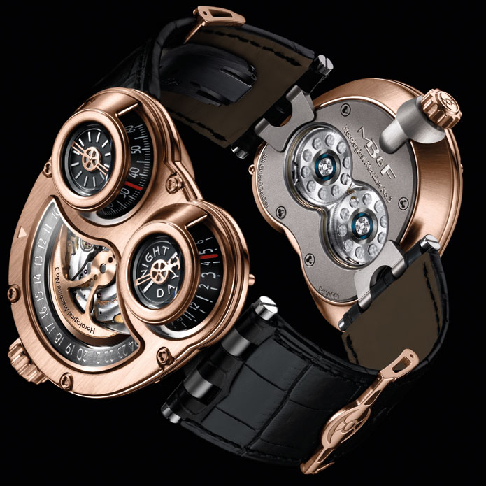 Horological Machine No.3 'Sidewinder in red gold (front and back) by MB&F